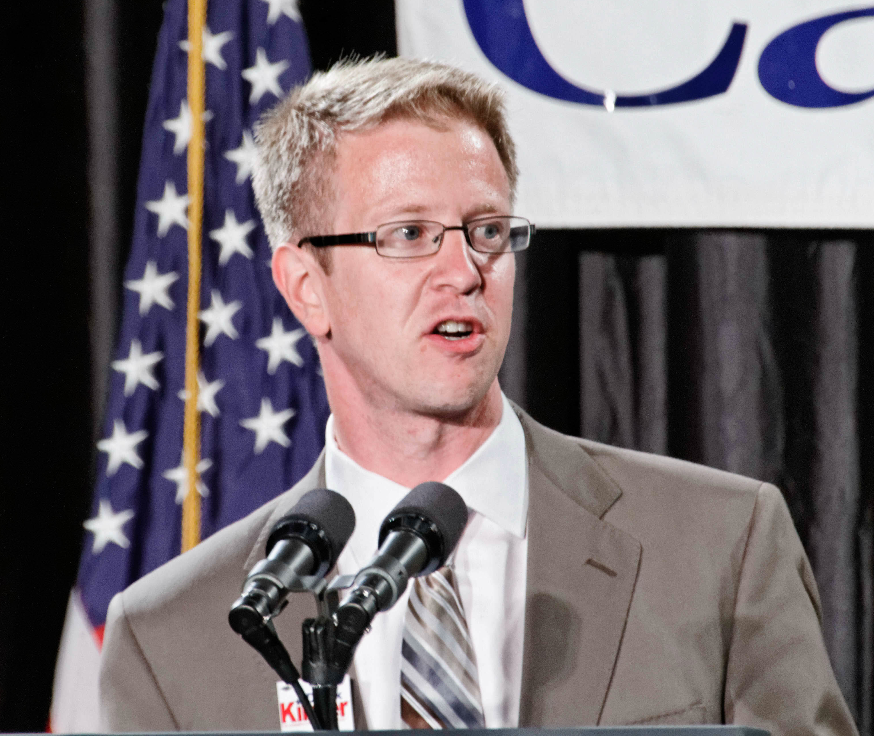 United States Representative Derek Kilmer.